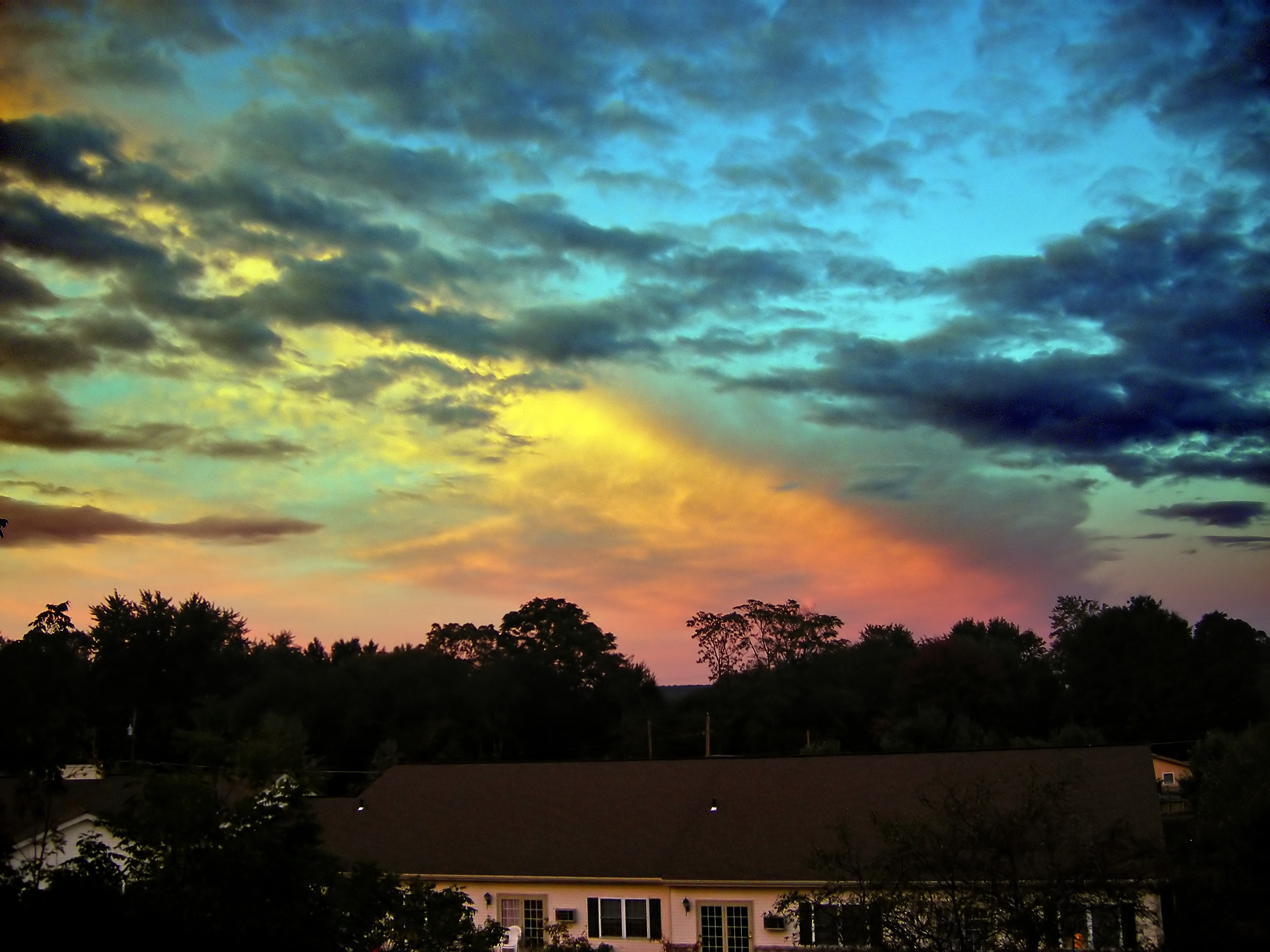 Stratocumulus clouds at dusk.